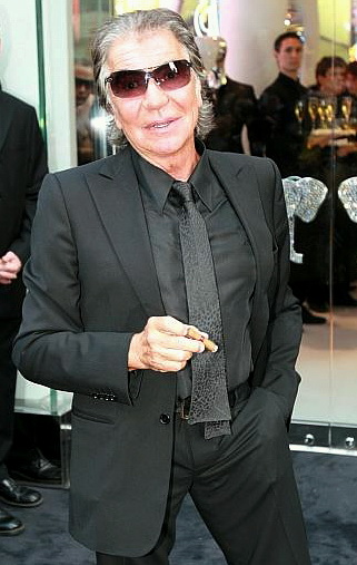 Roberto Cavalli, Italian fashion designer at opening of Just Cavalli Store on 5th Avenue, New York City